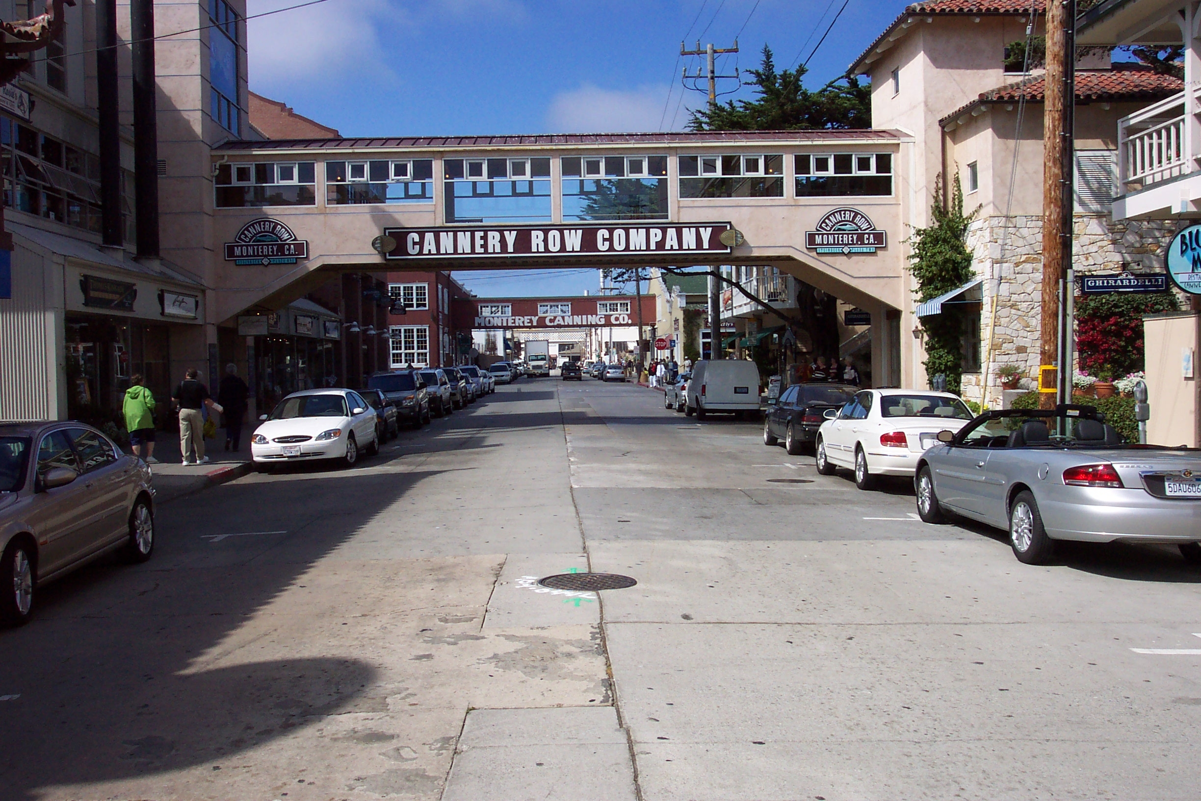 World famous Cannery Row. Monterey, California.